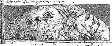 Al-mi'raj, arab legendary creature (Comment: dubious description - we need confirmation that it's called by that name in the source))